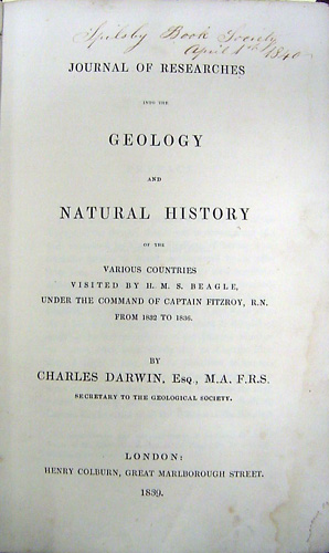 Title page : Journal of researches into the geology and natural history of the various countries visited by H.M.S. Beagle under the command of Captain Fitz Roy, R.N, from 1832 to 1836. London, Henry Colburn, 1839. Author: Charles Darwin.